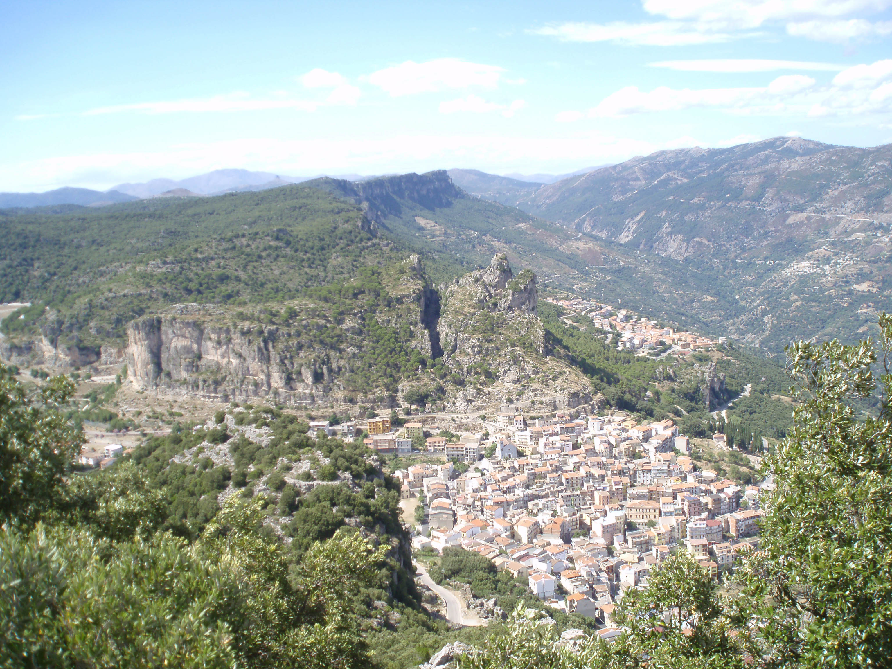 Ulassai seen from Bruncu Matzeu, the highest point of Tisiddu mountain